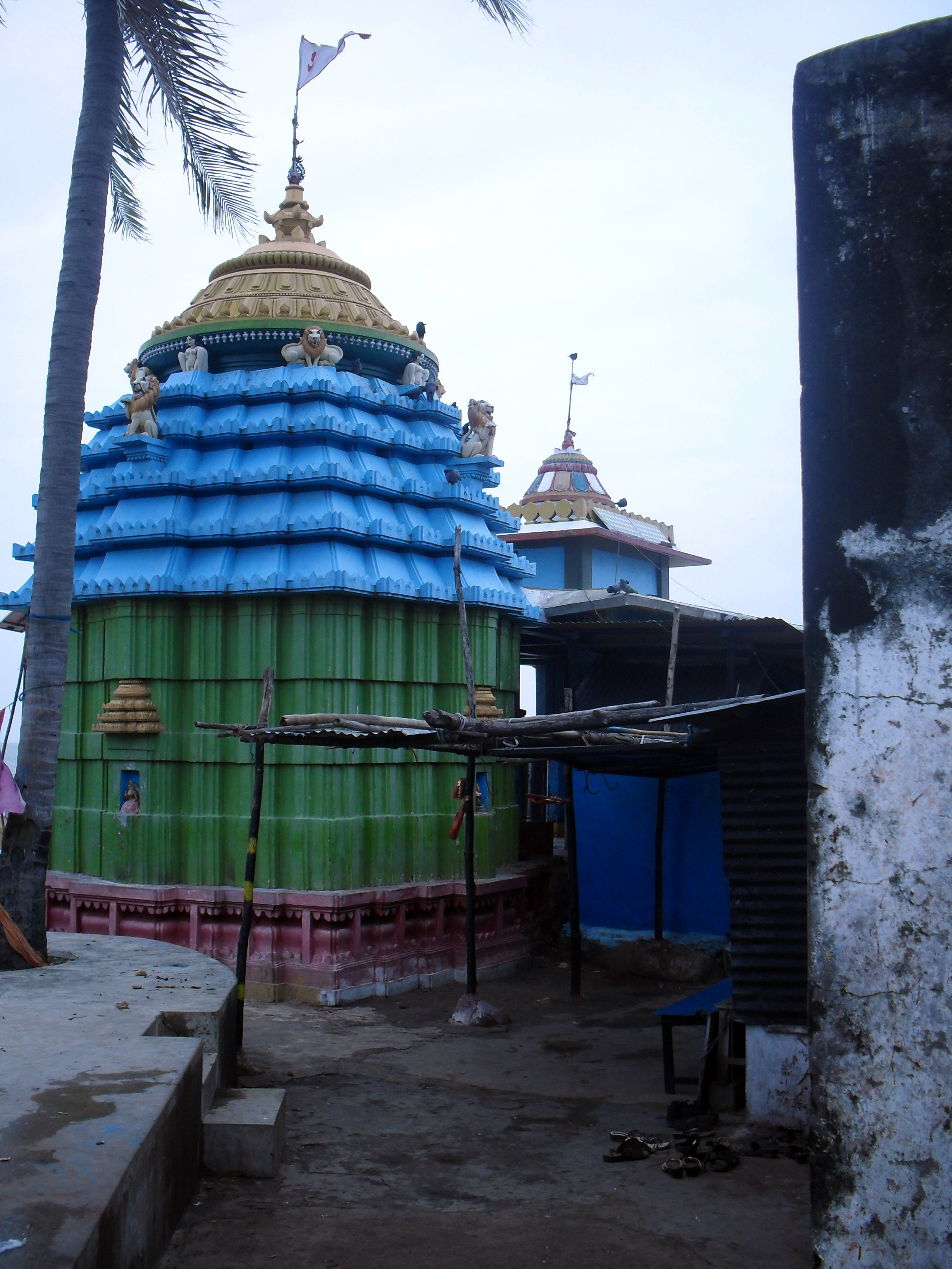 Kalijai Temple, Chilika Lake, Khurda This media file is uploaded with Odia loves Wikipedia English |italiano |македонски |മലയാളം |ଓଡ଼ିଆ +/−